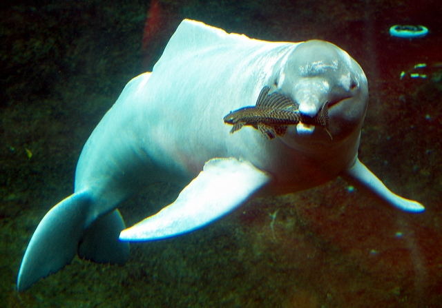 Inia (Inia geoffrensis) at the zoo of Duisburg